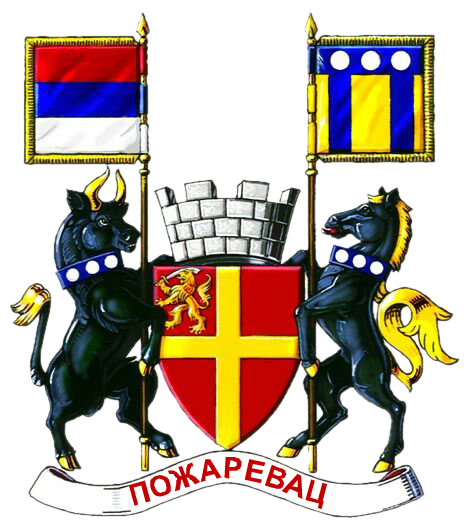 Greater coat of arms of Požarevac (2001-2006)